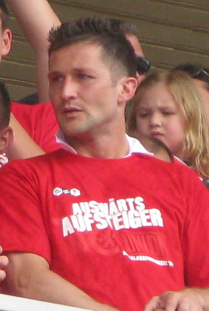 Michael Bemben is a german-polish footballplayer.